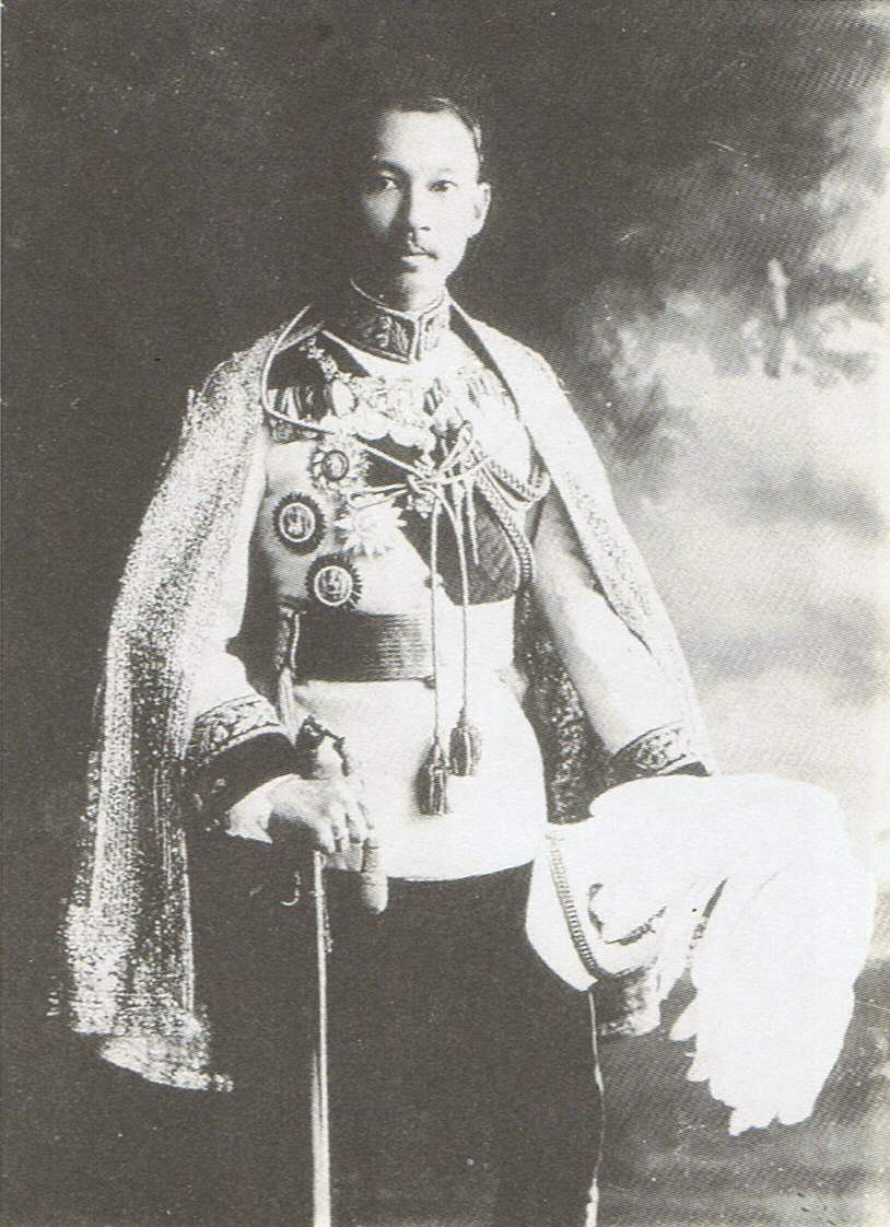 HRH Prince Purachatra Jayakara, the Prince of Kamphaengphet, son of King Chulalongkorn (Rama V the Great) of Siam, and The Noble Consort (Chao Chom Manda) Wad Kalyanamitra